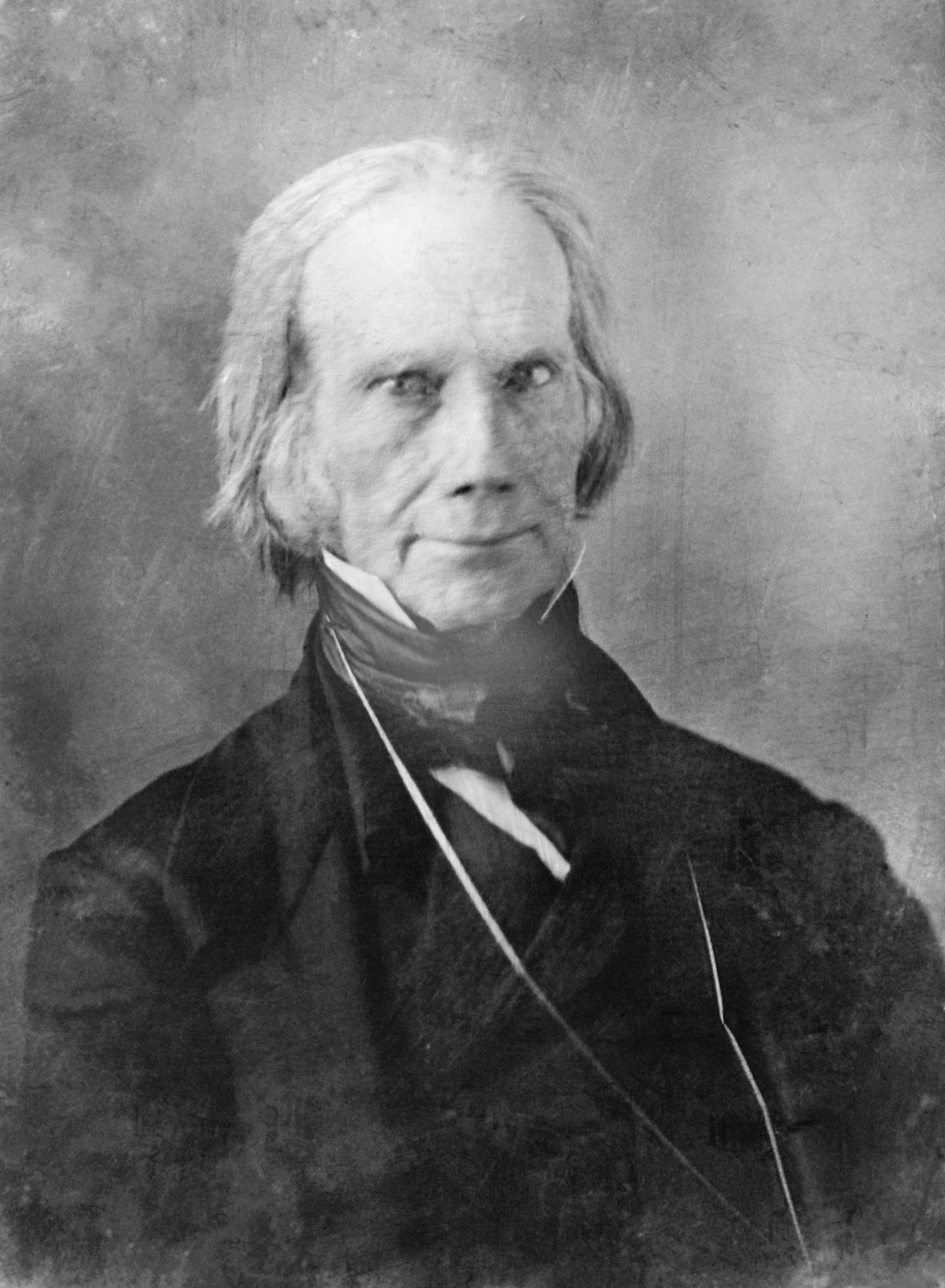 Henry Clay, head-and-shoulders portrait, facing front